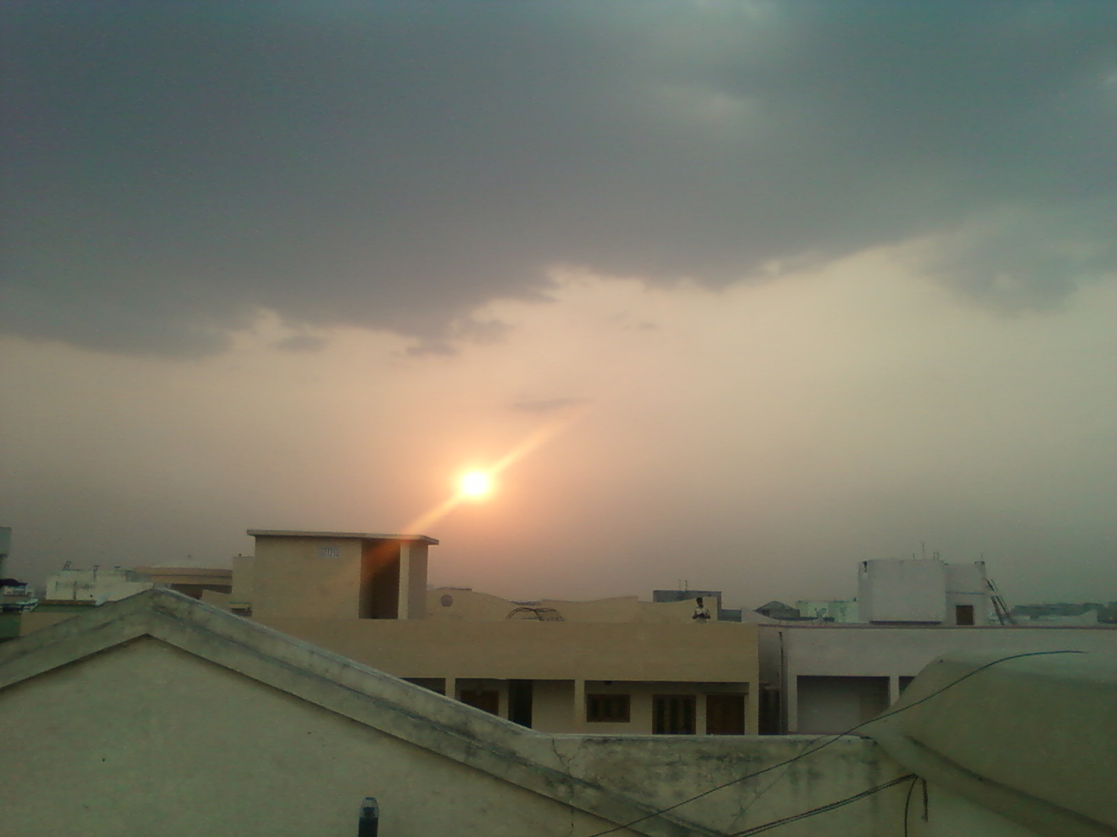 View of Sunset at Nizampet in Rangareddy District, Andhra Pradesh